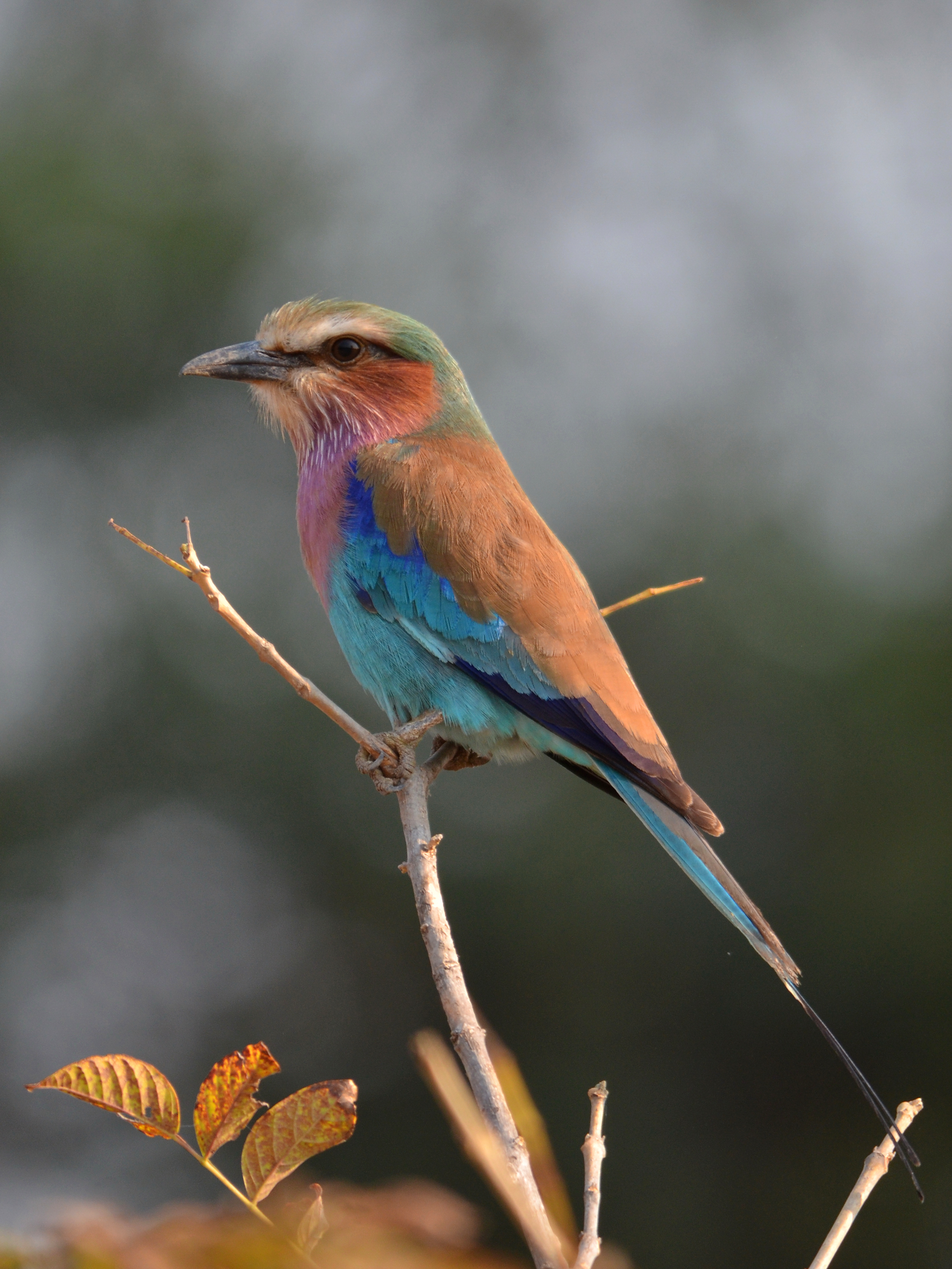 Lilac-breasted Roller at South Luangwa National Park, Zambia.